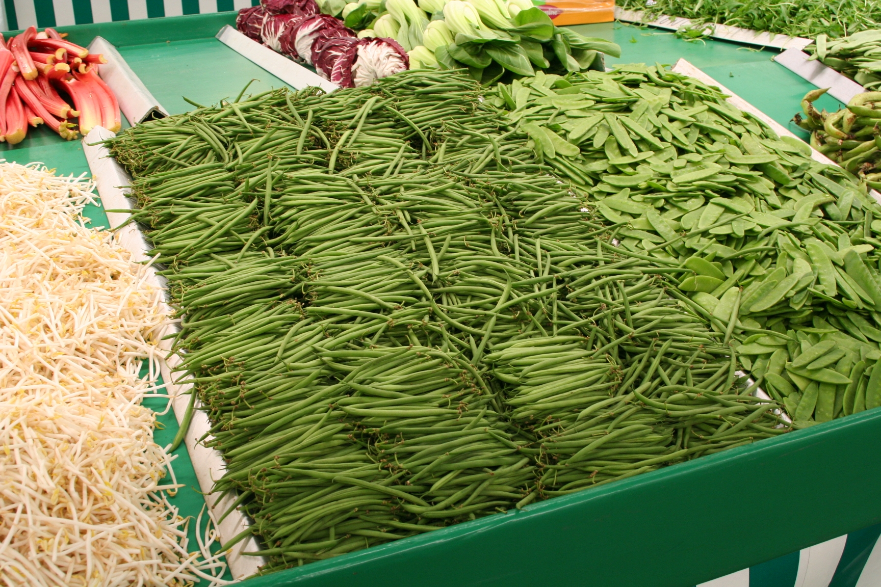 Green beans and snow peas.